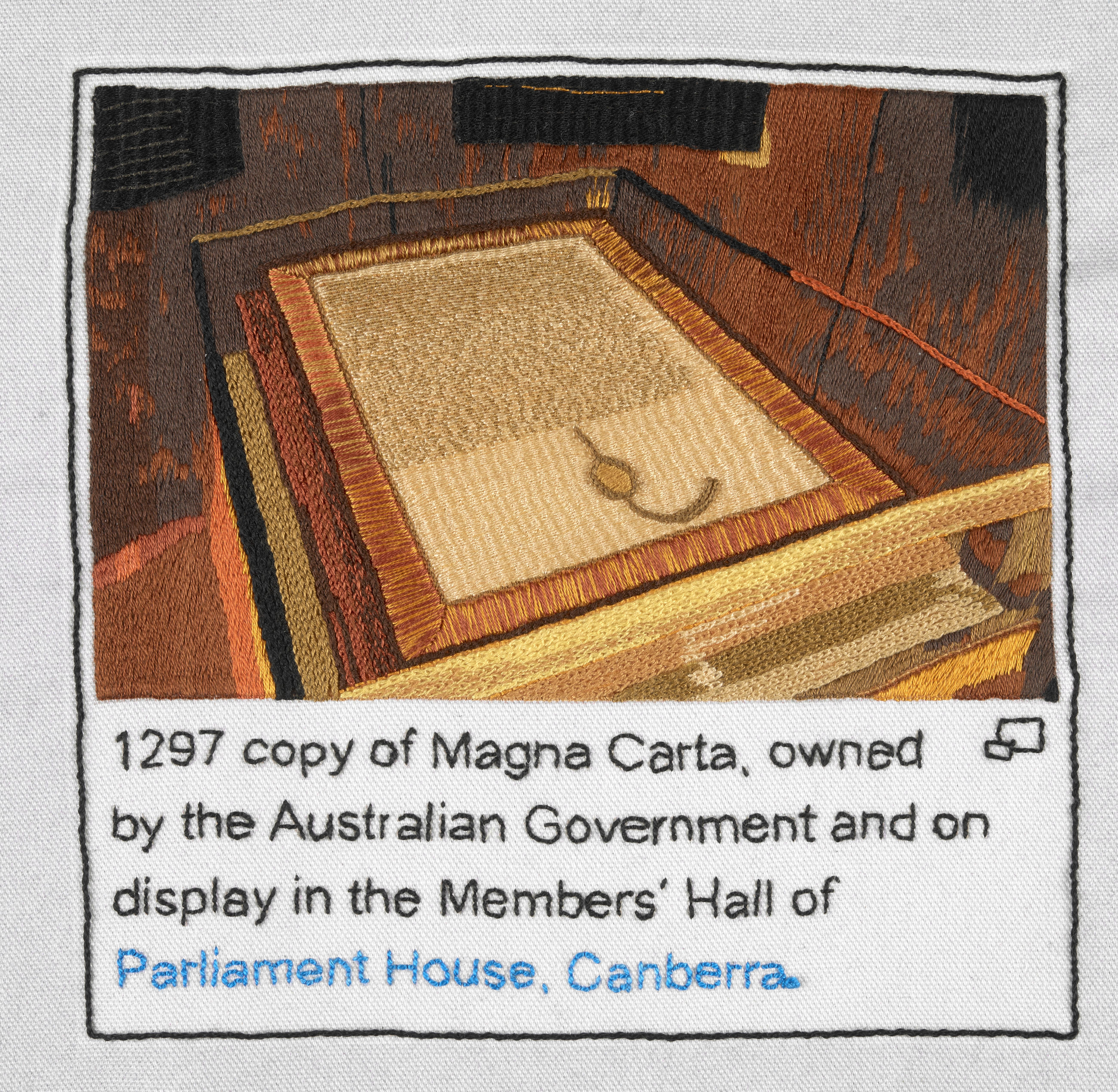 Detail from Magna Carta (An Embroidery), showing the 1297 copy of Magna Carta on display in Australia, as depicted on the Wikipedia article Magna Carta on 15 June 2014